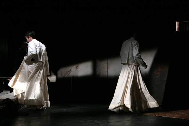 Image of spectacle Dervis i smrt